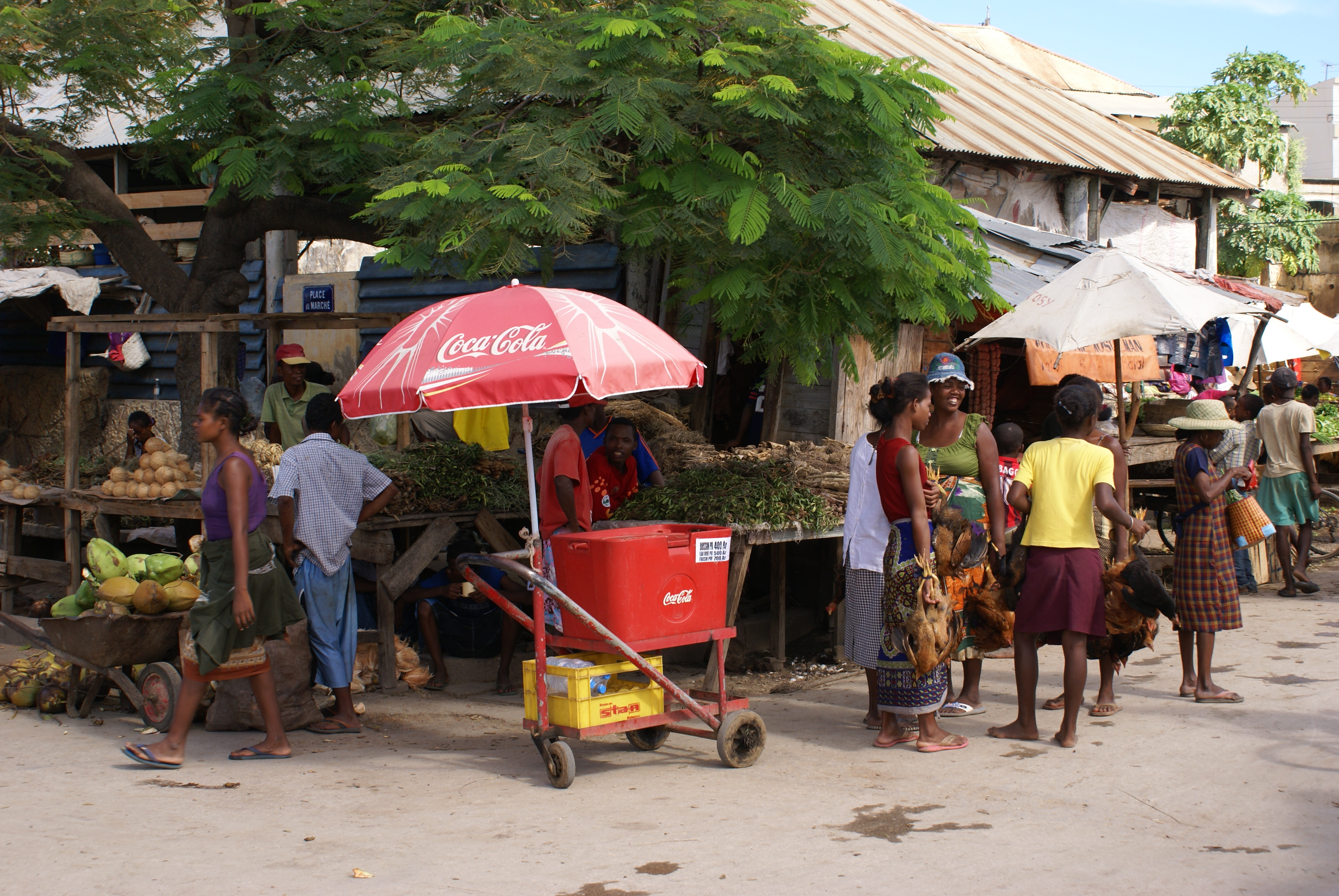 On the street market of Toliara (south of Madagascar)